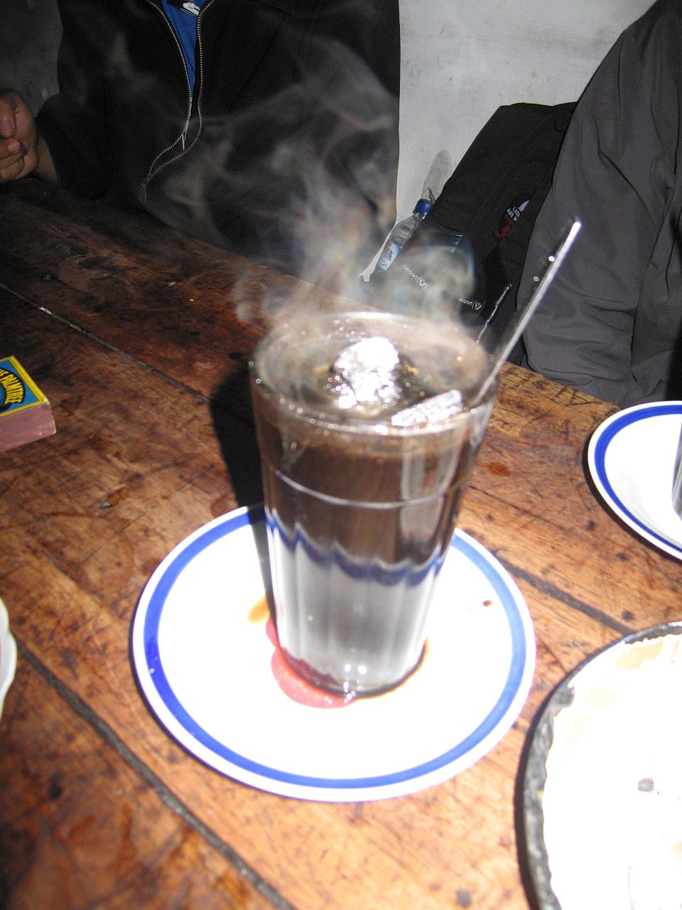 Specialty from Angkringan Lik Man, north of Stasiun Tugu Jogja: coffee with red hot charcoal.